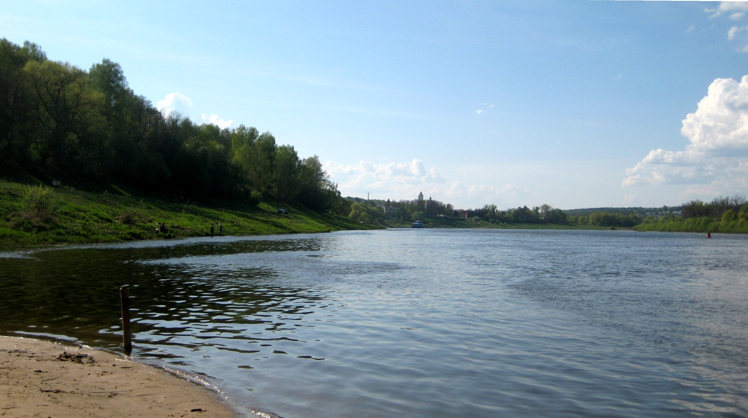 View to Tarusa city from Oka coast